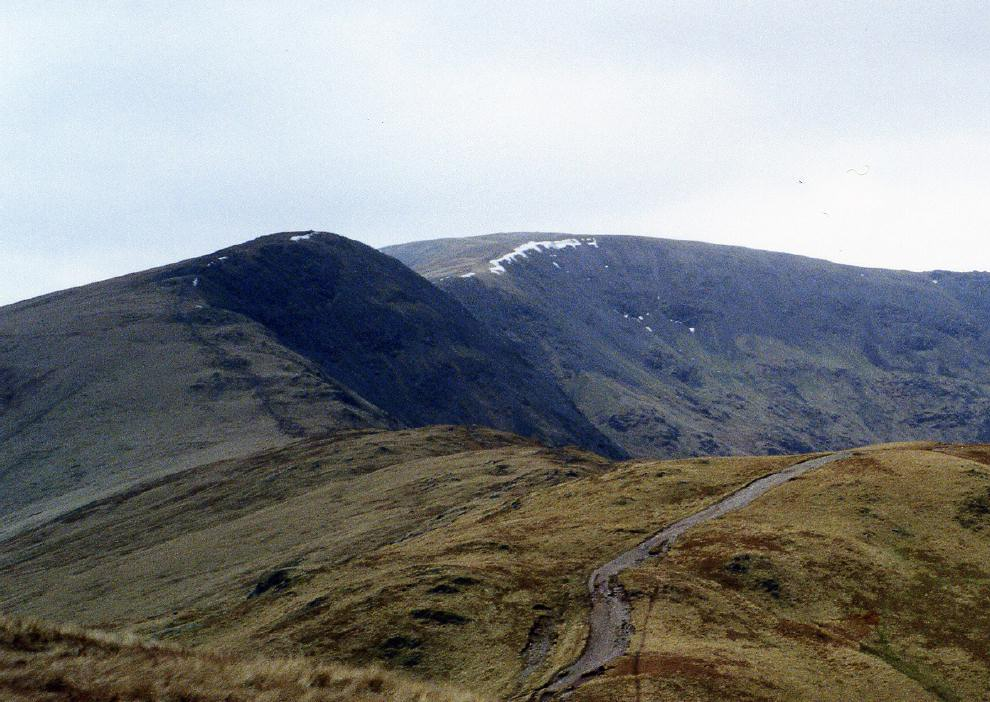 Great Rigg (left) with Fairfield behind from Heron Pike. Personal picture taken by Mick Knapton